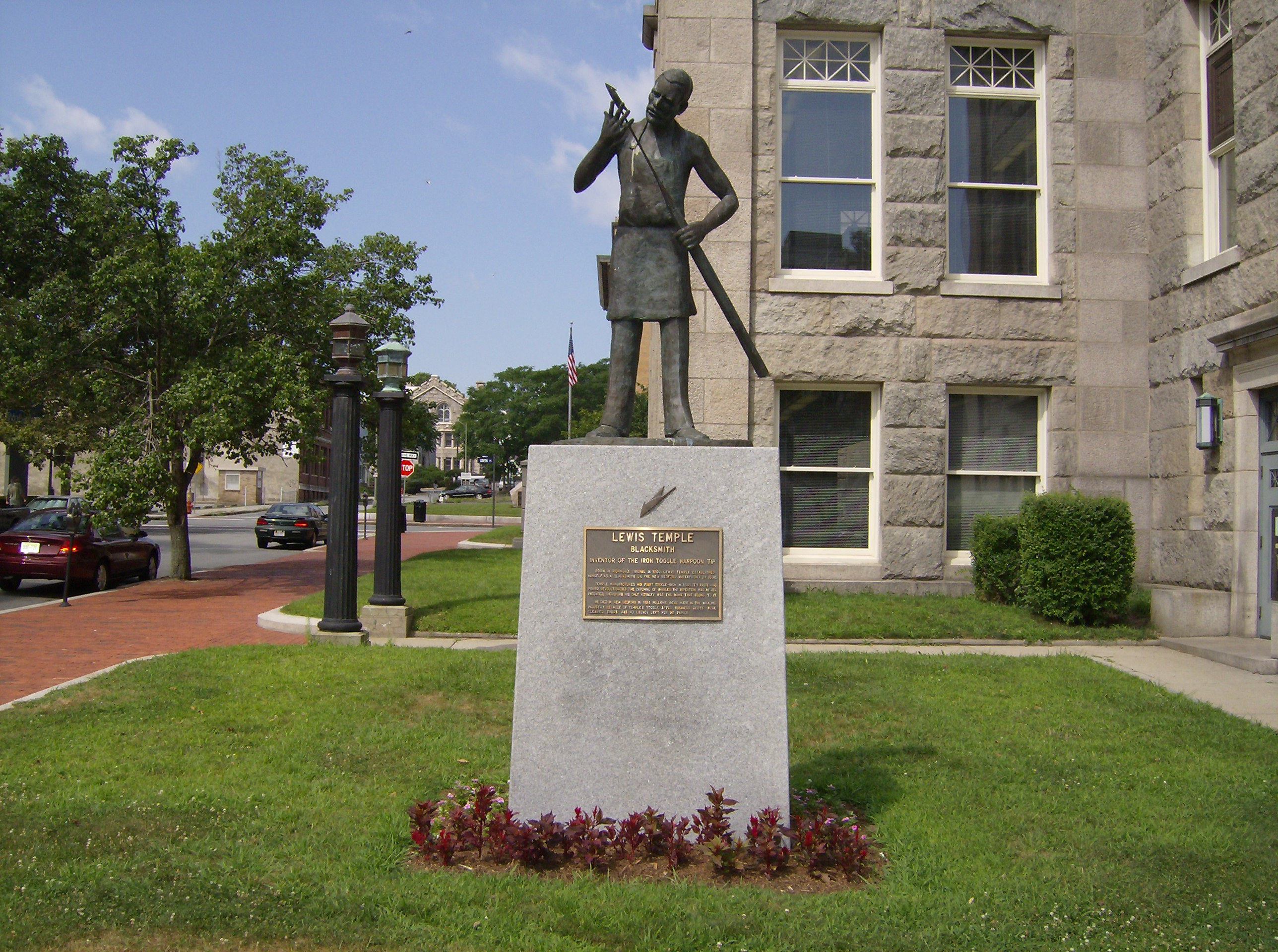 A statue of the inventor Lewis Temple, found in front of the New Bedford Public Library in downtown New Bedford, Massachusetts.